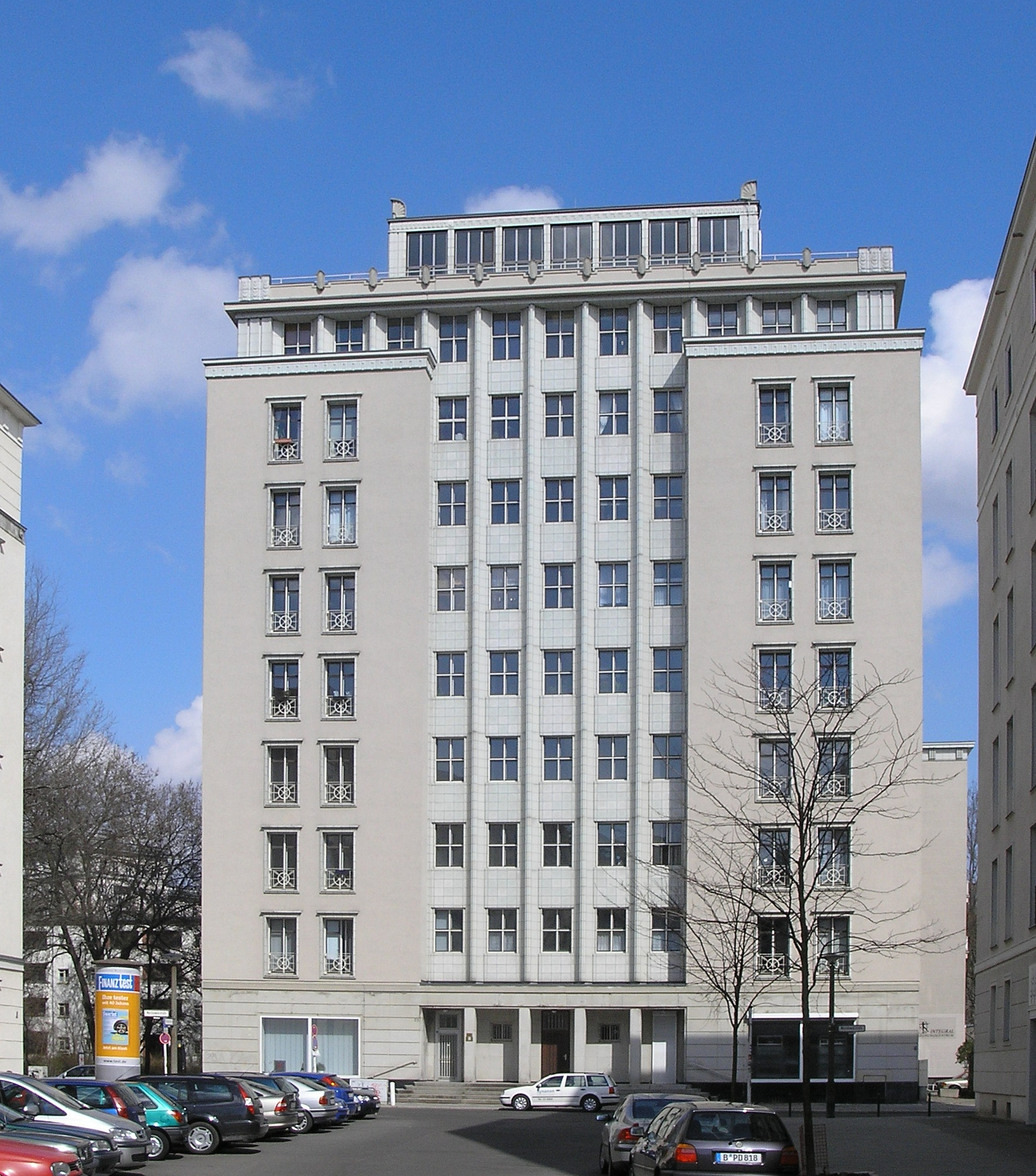 Description: high-rise at Weberwiese, Berlin-Friedrichshain. Architect: Prof. Hermann Henselmann. Construction took place 1951-1952. Source: self-made. I release it into the public domain. Gryffindor 17:57, 10 April 2006 (UTC)